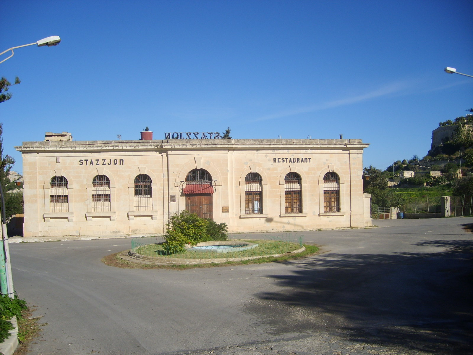 Former train station "Museum" outside Mdina in Malta, the terminus of Malta Railway between 1900 and 1931. Later it was used as a restaurant, now abandoned.